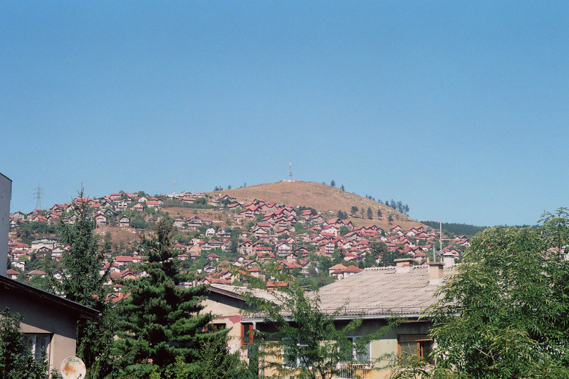 Brdo Grdonj iznad Sarajeva